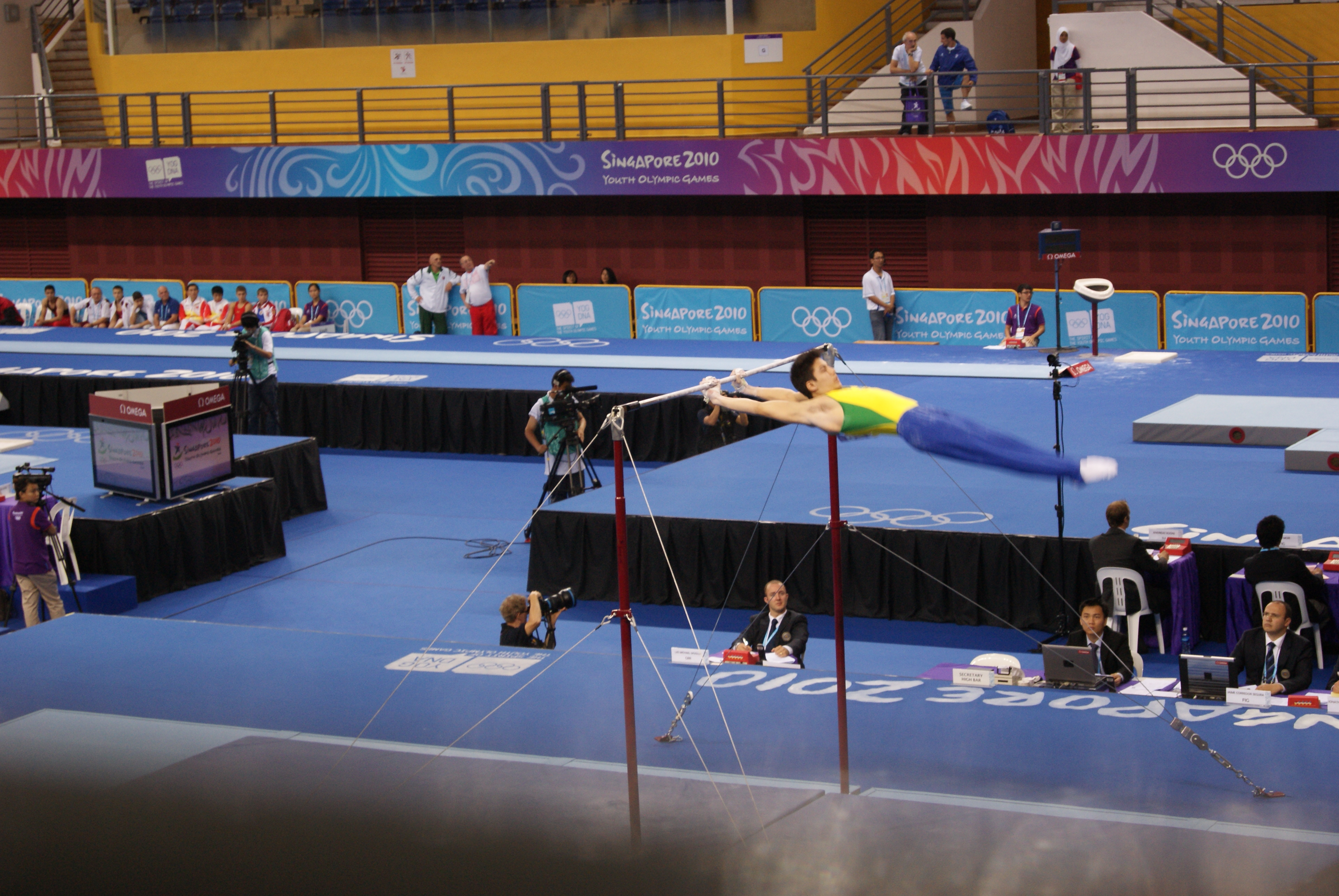 Brazilian gymnast Arthur Mariano performing on the horizontal bar during Men's Qualification – Subdivision 1 of the artistic gymnastics competition at the 2010 Summer Youth Olympics at Bishan Sports Hall, Singapore.